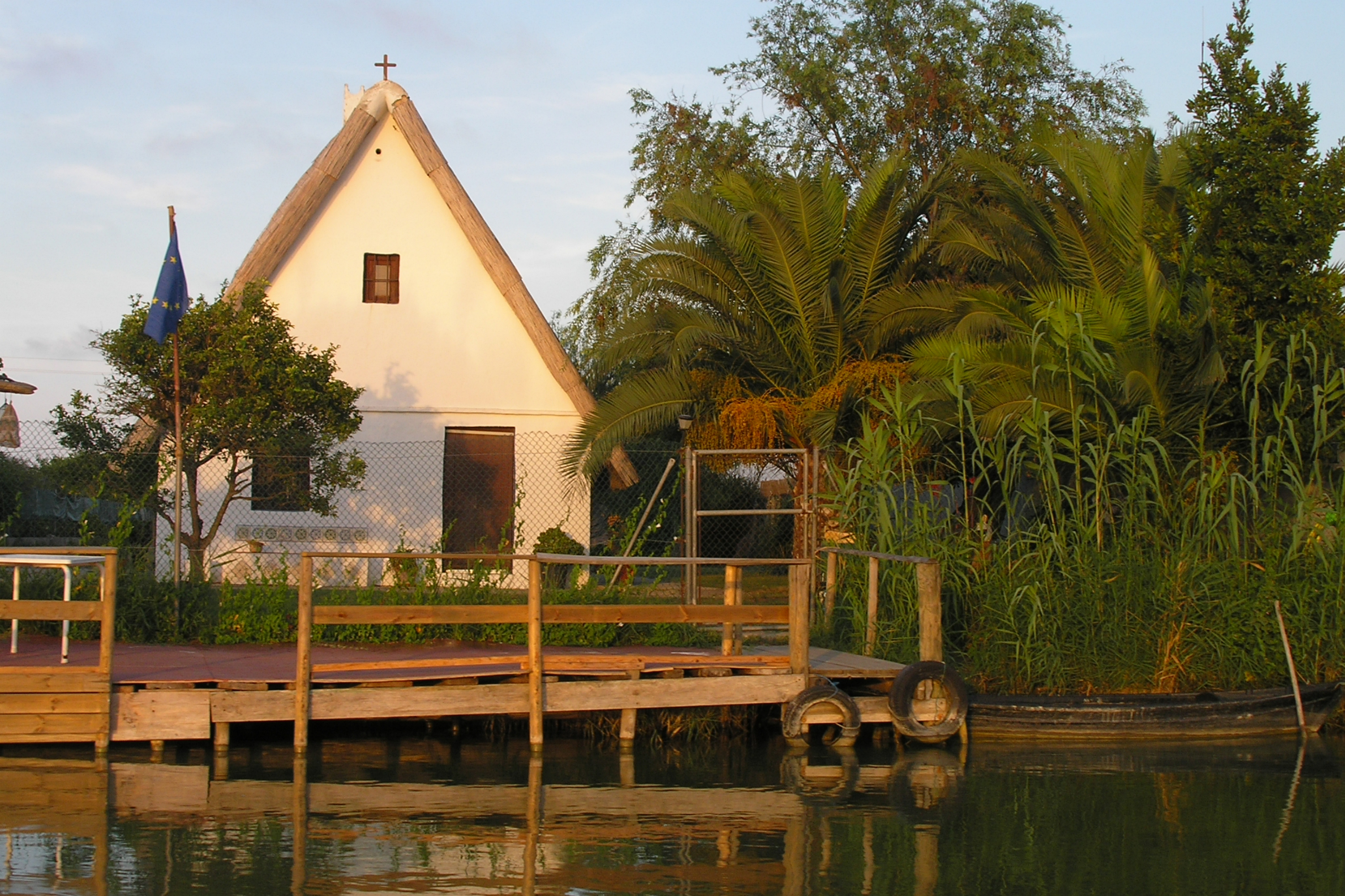 entre cañas, la albufera valencia